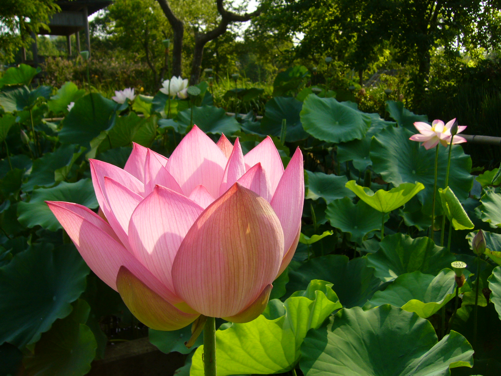 Lotus flower at the Suigo Sawara Ayame Park in Katori City, Chiba Prefecture, Japan